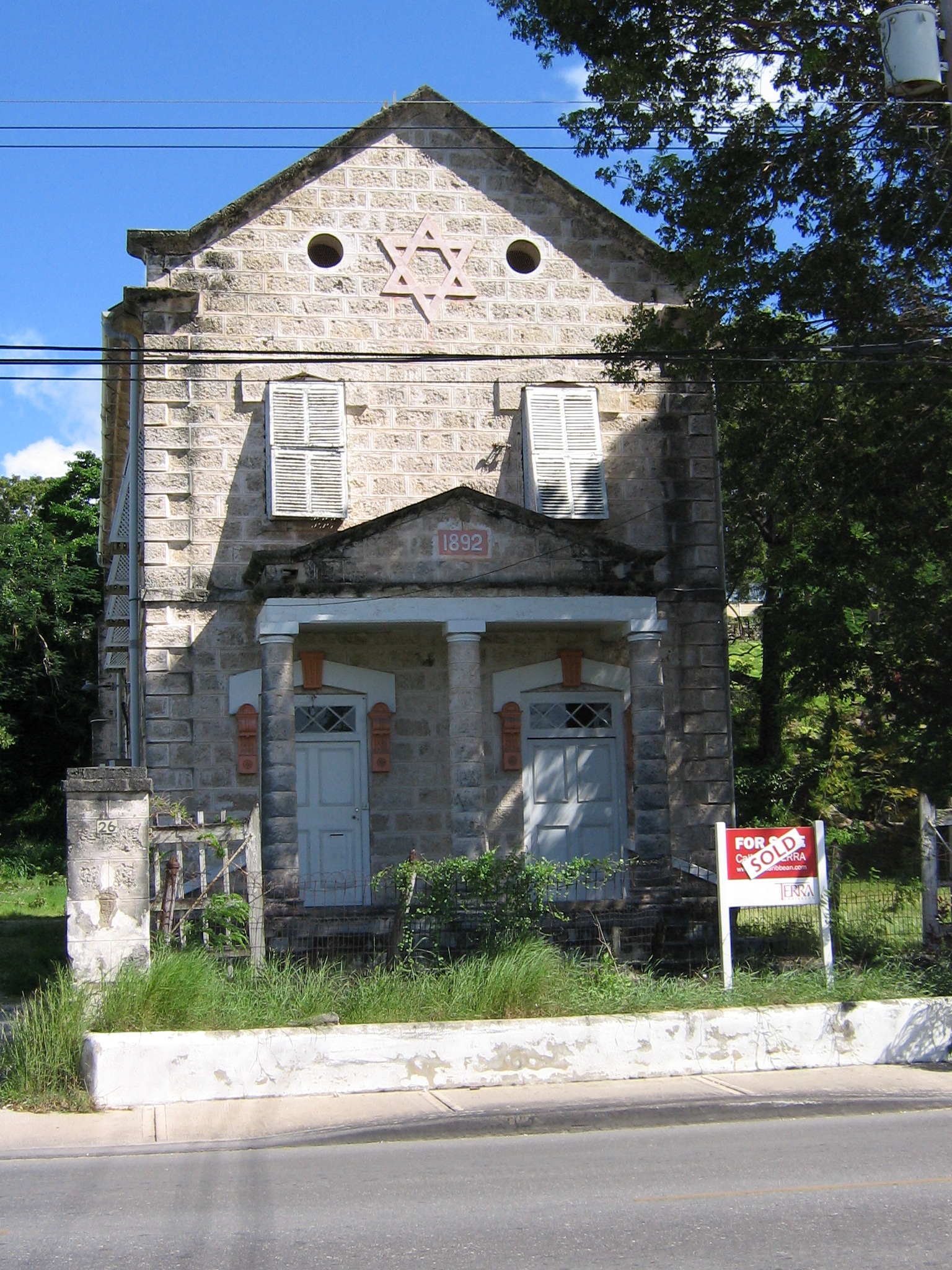 Old Synagogue in Belleville, Bridgetown, Barbados